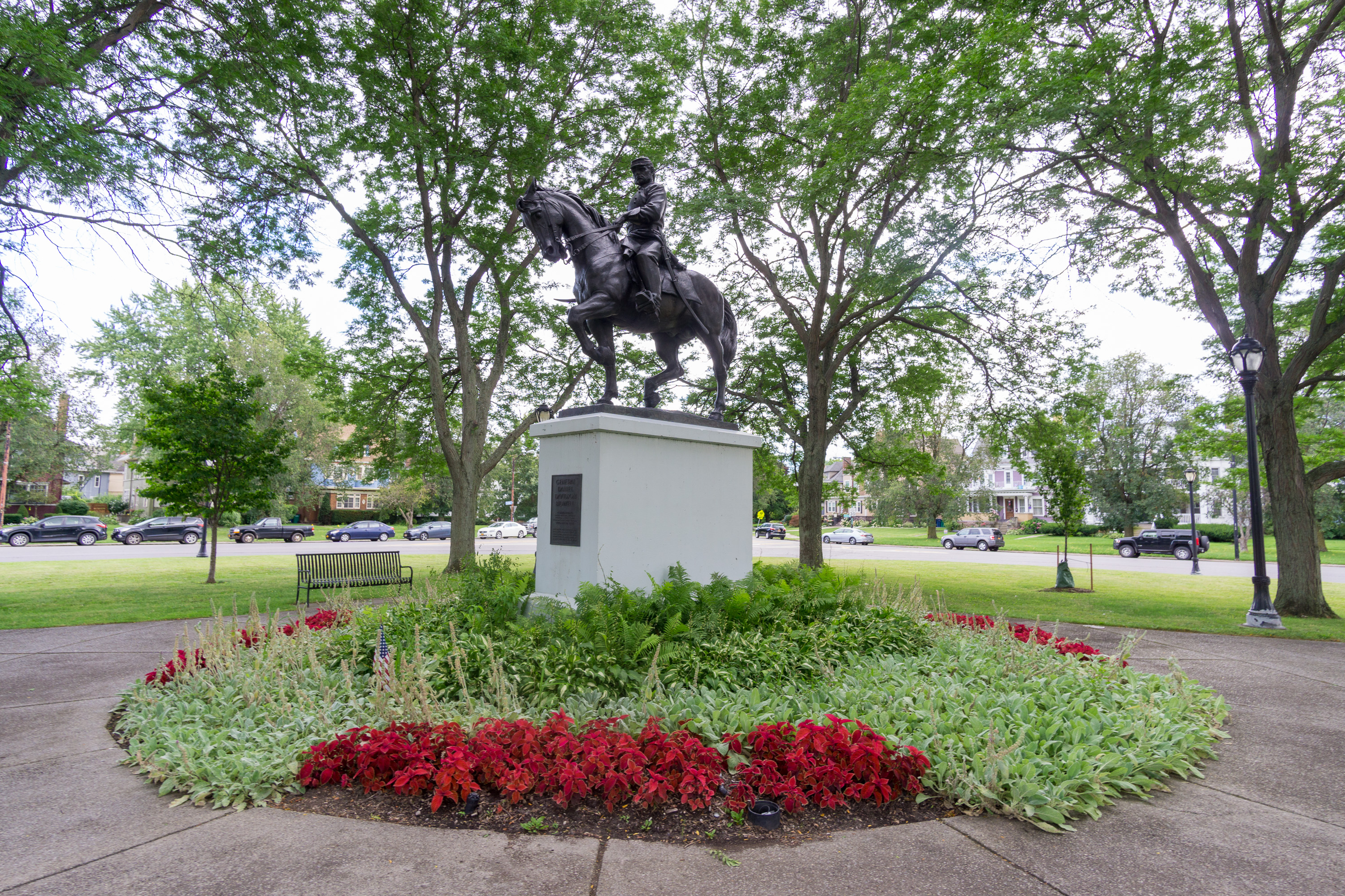 Statue of General Daniel Davidson Bidwell, Colonial Circle, Buffalo, New York.